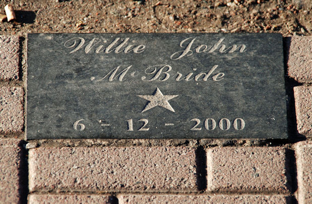 Tree plaque, Belfast. Several trees along Gt Victoria Street have footpath plaques dedicated by local personalities 466620. This one (close to the BBC Blackstaff Studios) marks Willie John McBride, the rugby player - a former captain of The Lions.